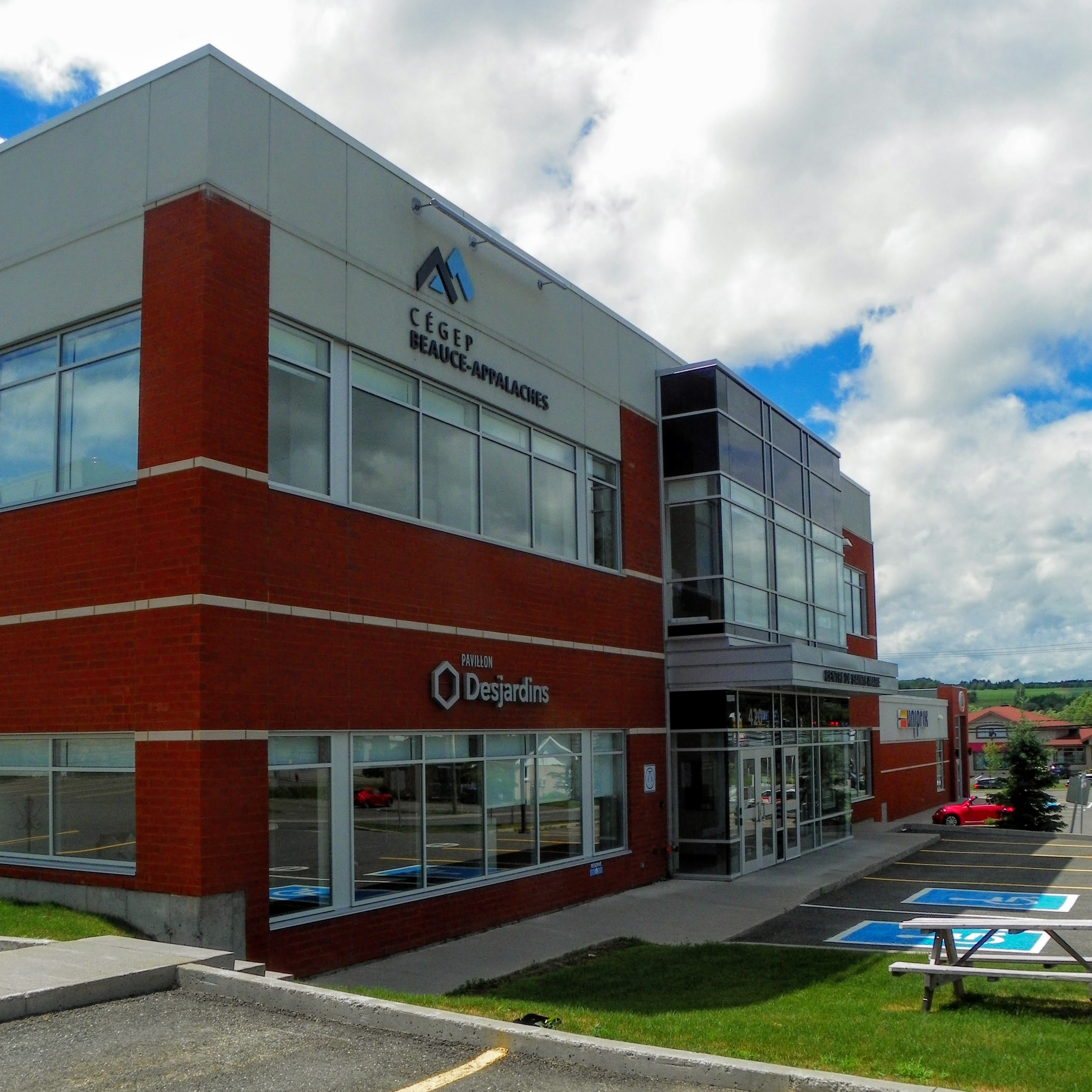 Sainte-Marie collegial studies centre, cégep Beauce-Appalaches in Sainte-Marie, Québec.